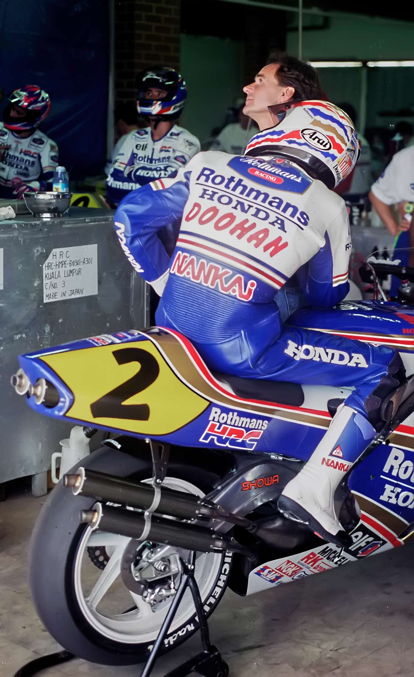 Mick Doohan, sitting on his Rothmans Honda, looking at a screen, with in the back Shinichi Ito and Daryl Beattie at the 1993 Australian Grand Prix.